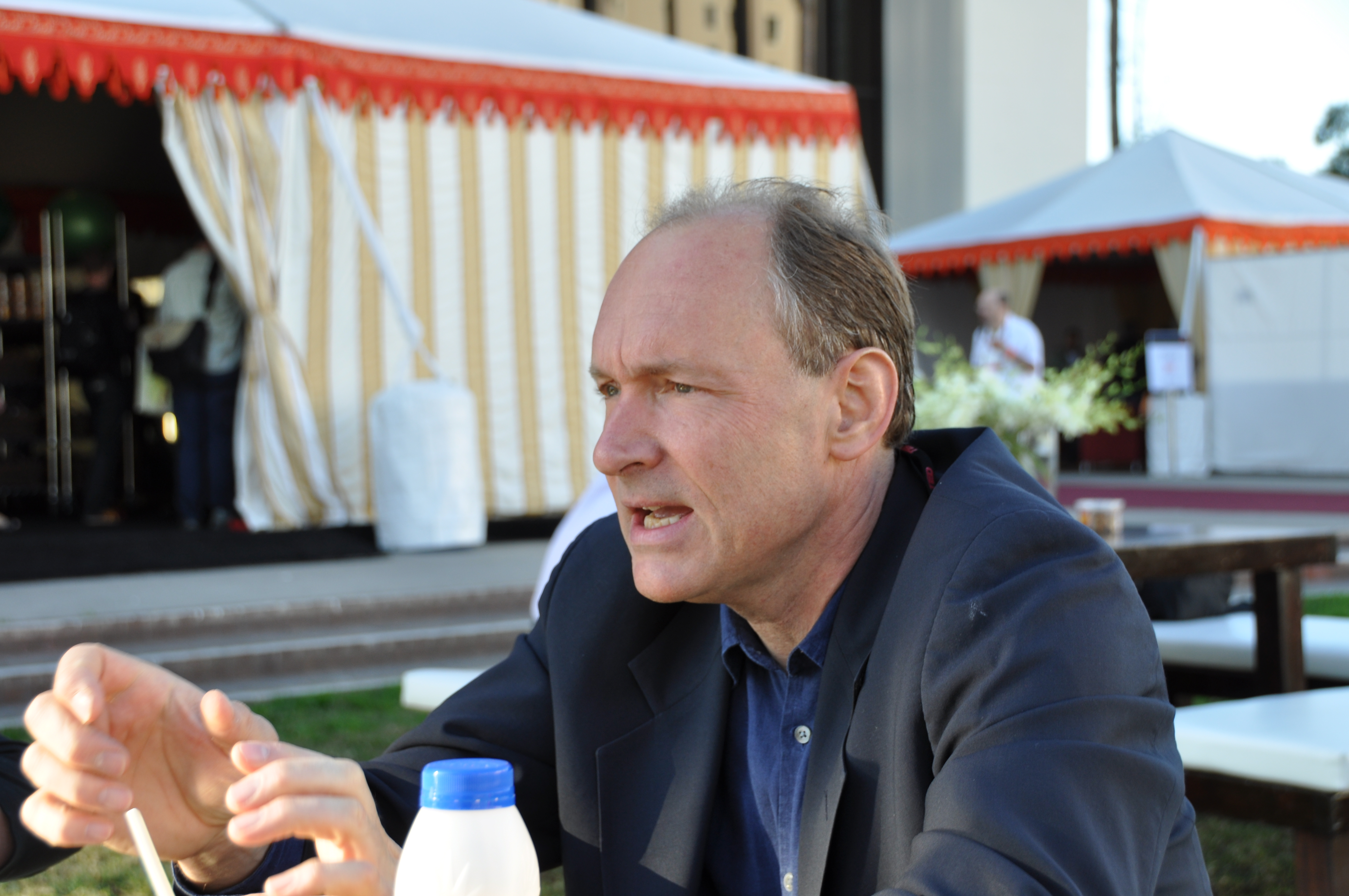 Tim Berners-Lee at the 2009 TED conference (